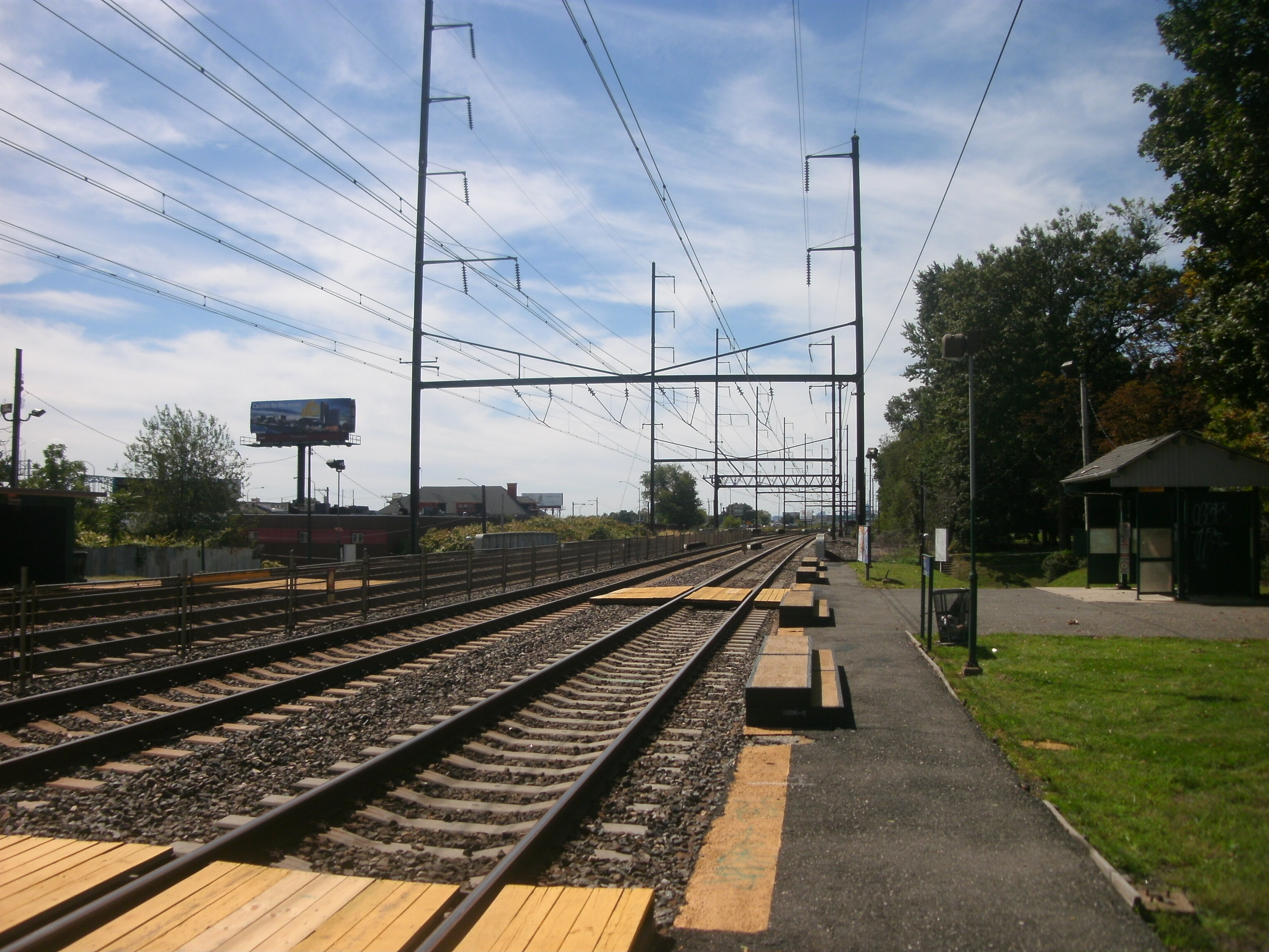 The Tacony SEPTA station in the northern reaches of Philadelphia, Pennsylvania.